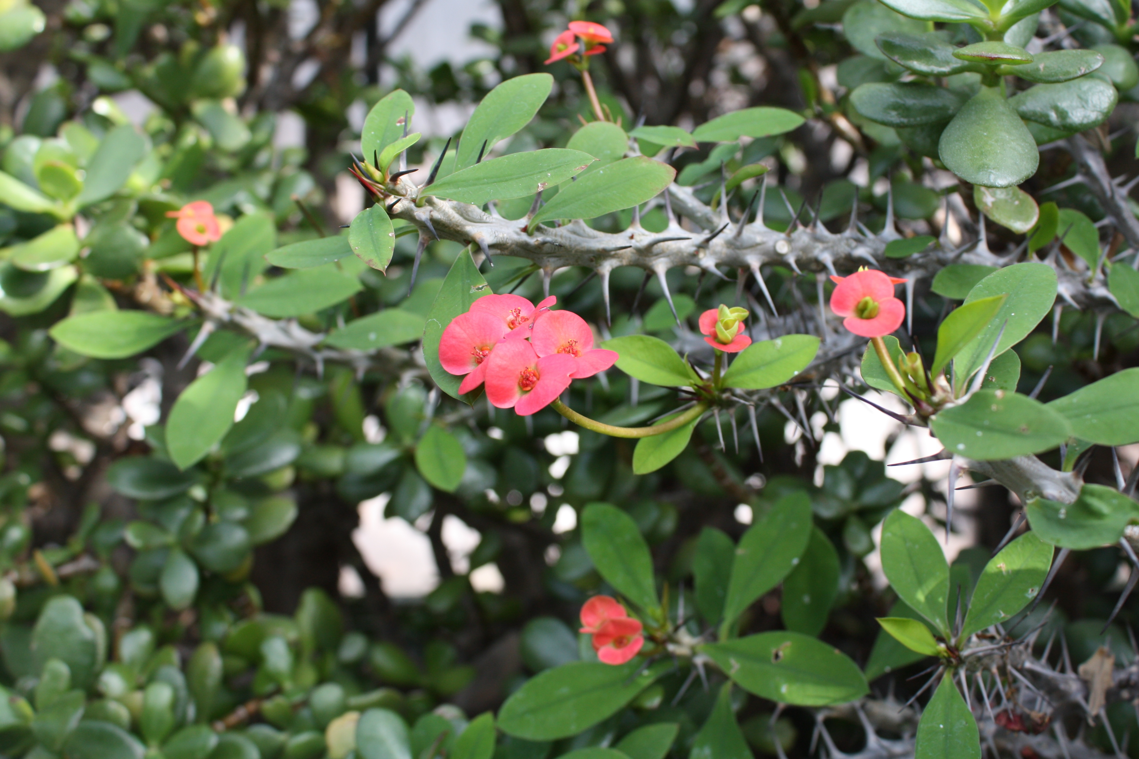 Euphorbia milii var. splendens in Helsinki City Winter Garden